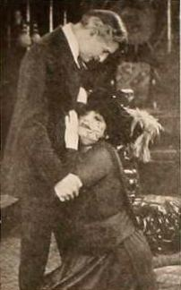 Still from the American film The Honey Bee (1920) with Thomas Holding and Marguerite Sylva, on page 2843 of the April 17, 1919 Motion Picture News.